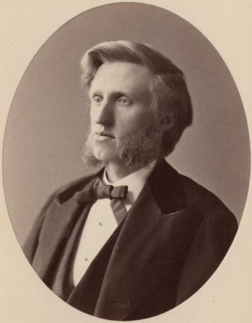 Portrait of Caleb Thomas Winchester, U.S. professor and scholar of English literature.